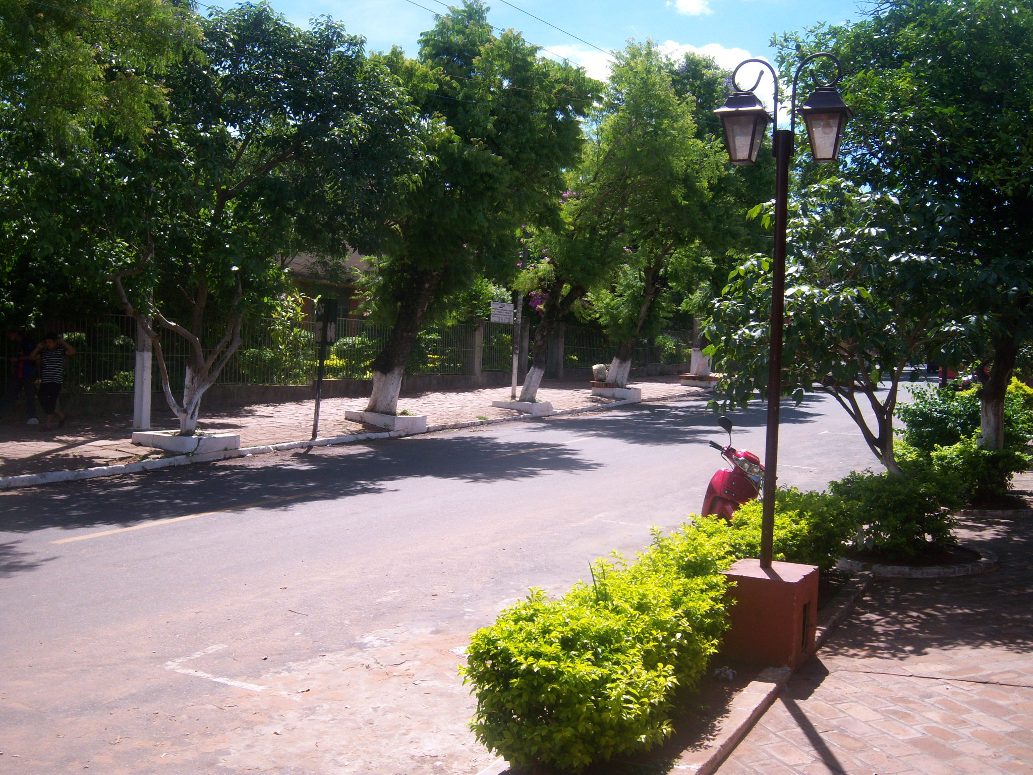 Calle in Itauguá, Central, Paraguay.